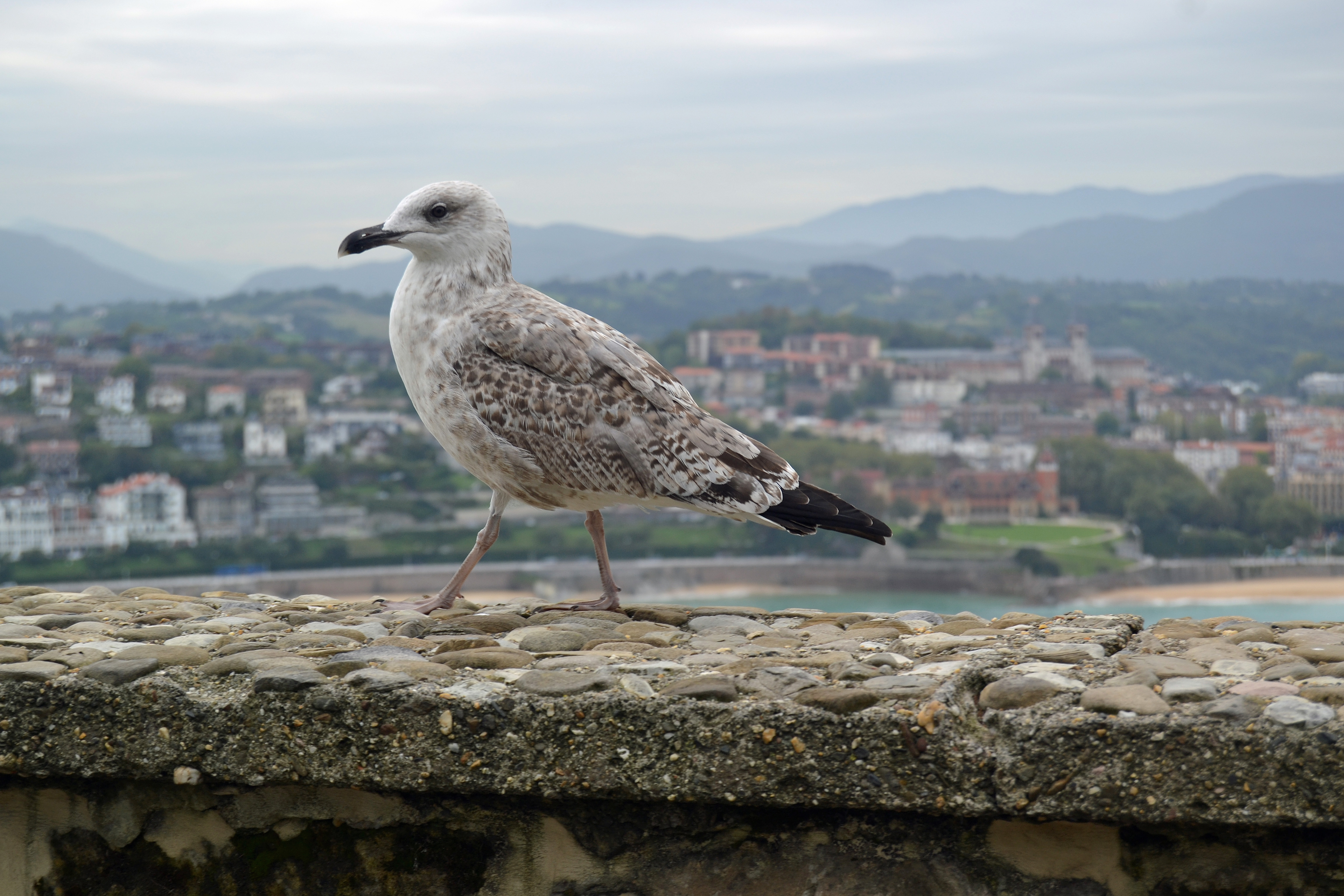 Seagull. In Urgull mountain, Donostia-Saint Sebastian. Gipuzkoa, Basque Country.